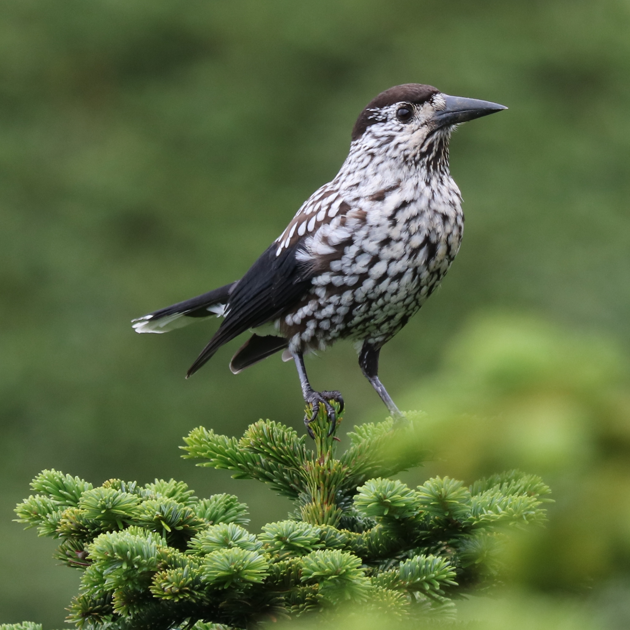 Nucifraga caryocatactes japonica in Bessan, Ryōhaku Mountains, Hakusan, Ishikawa Prefecture, Japan.